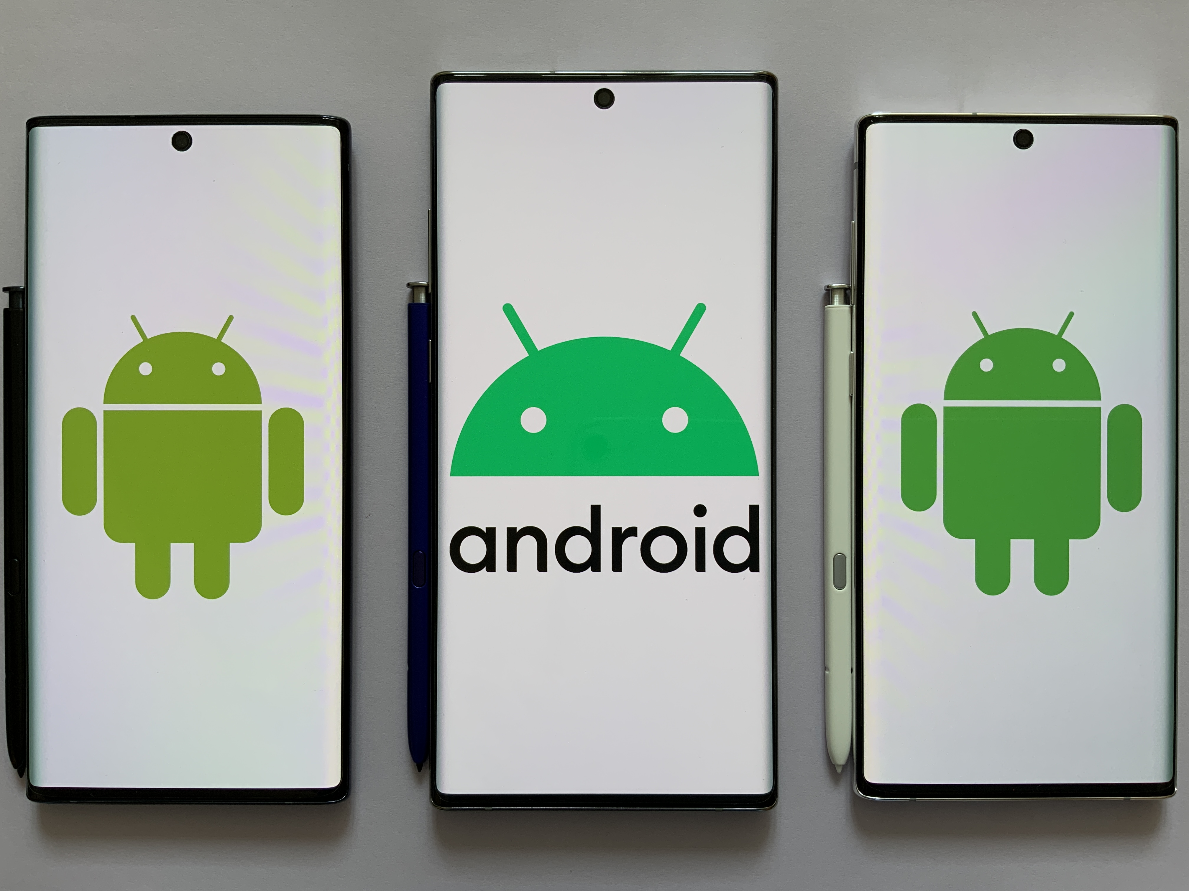 Android OS logos (2008-2014, 2014-2019, 2019-now)